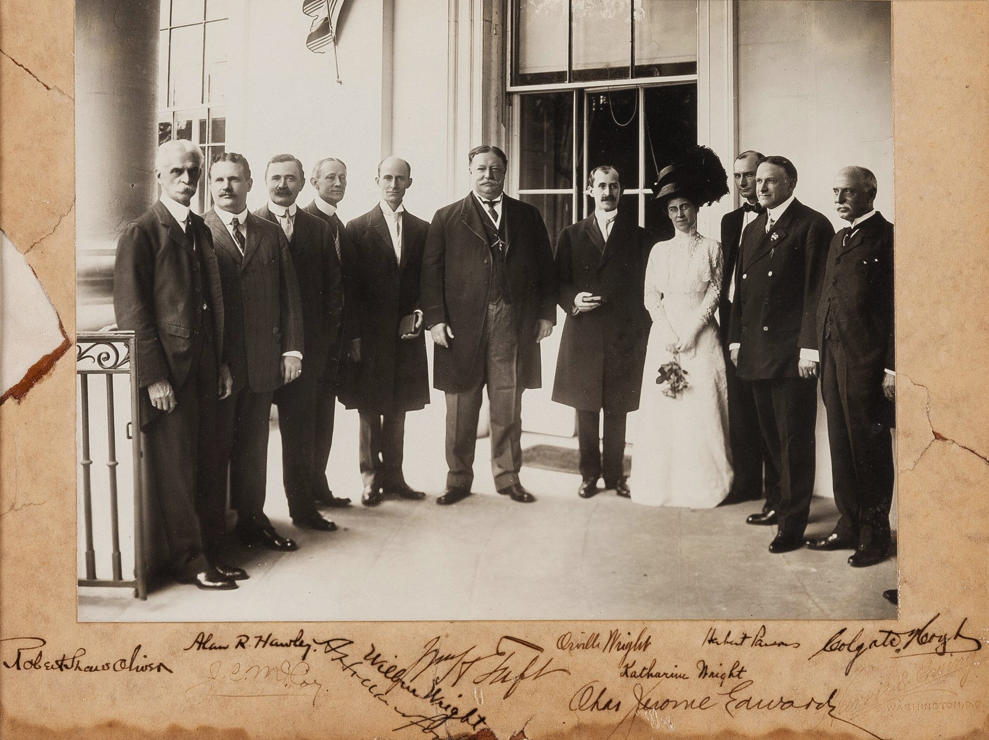 Wilbur and Orville Wright Signed Photograph, Also Signed by President William H. Taft and other notables. The photograph (9.25" x 7") is mounted to a Harris & Ewing mount measuring 11" x 8.5" (sight). It was taken at the White House on June 10, 1909 on the occasion of the brothers receiving medals from the Aero Club of America. Other notables pictured and signing include: sister Katherine Wright; pioneering aviator and publisher A. Holland Forbes; aviator Alan R. Hawley; automotive pioneer Charles Jerome Edwards, and Assistant Secretary of War Robert Shaw Oliver. From the Estate of Malcolm S. Forbes.